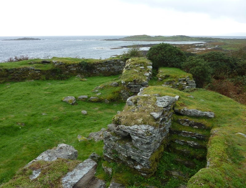 Kildonan Dun, Kintyre, Argyll and Bute, Scotland. Stairs and entrance beyond.